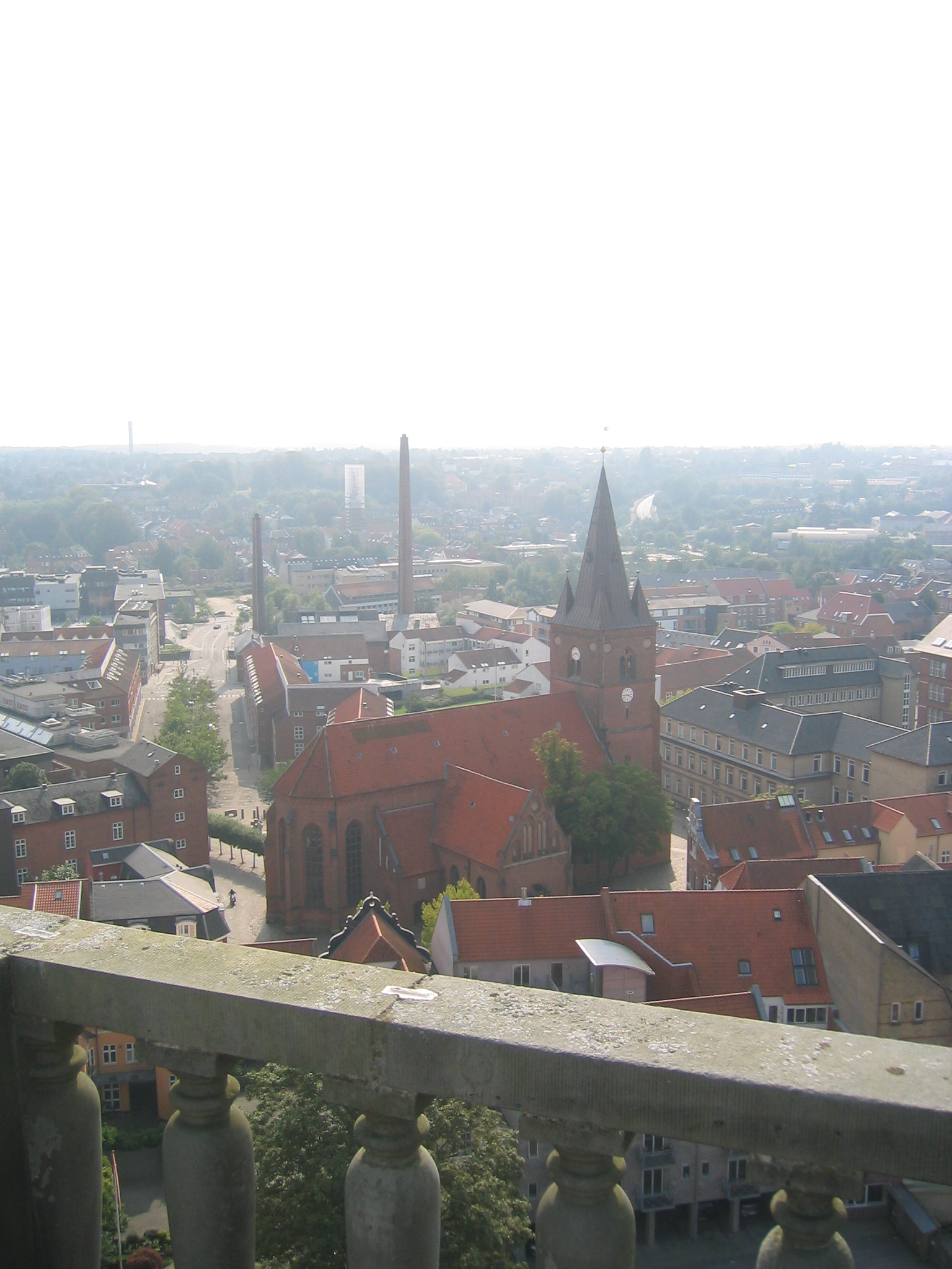 The Saint Nikolai Church in Kolding as seen from the tower on Koldinghus. (Note: Picture has Geotag information stored in EXIF.)